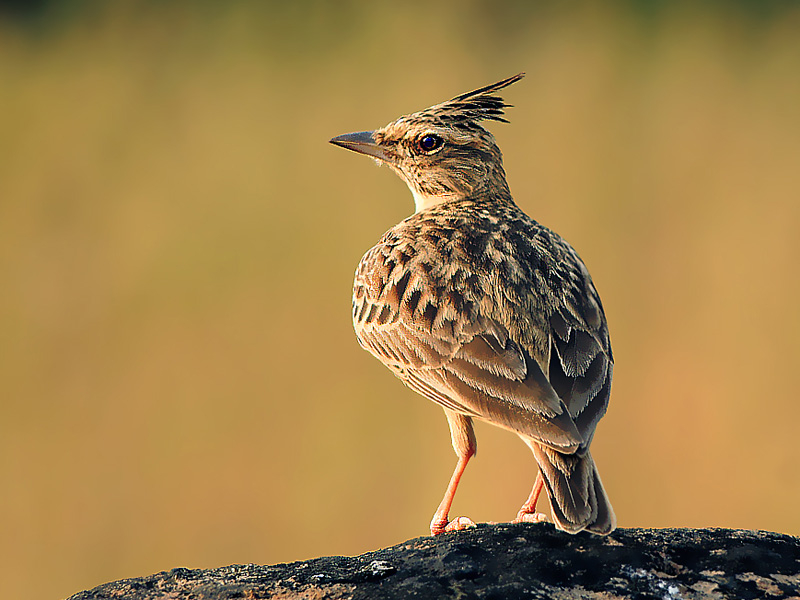 Malabar Crested Lark (Galerida malabarica)